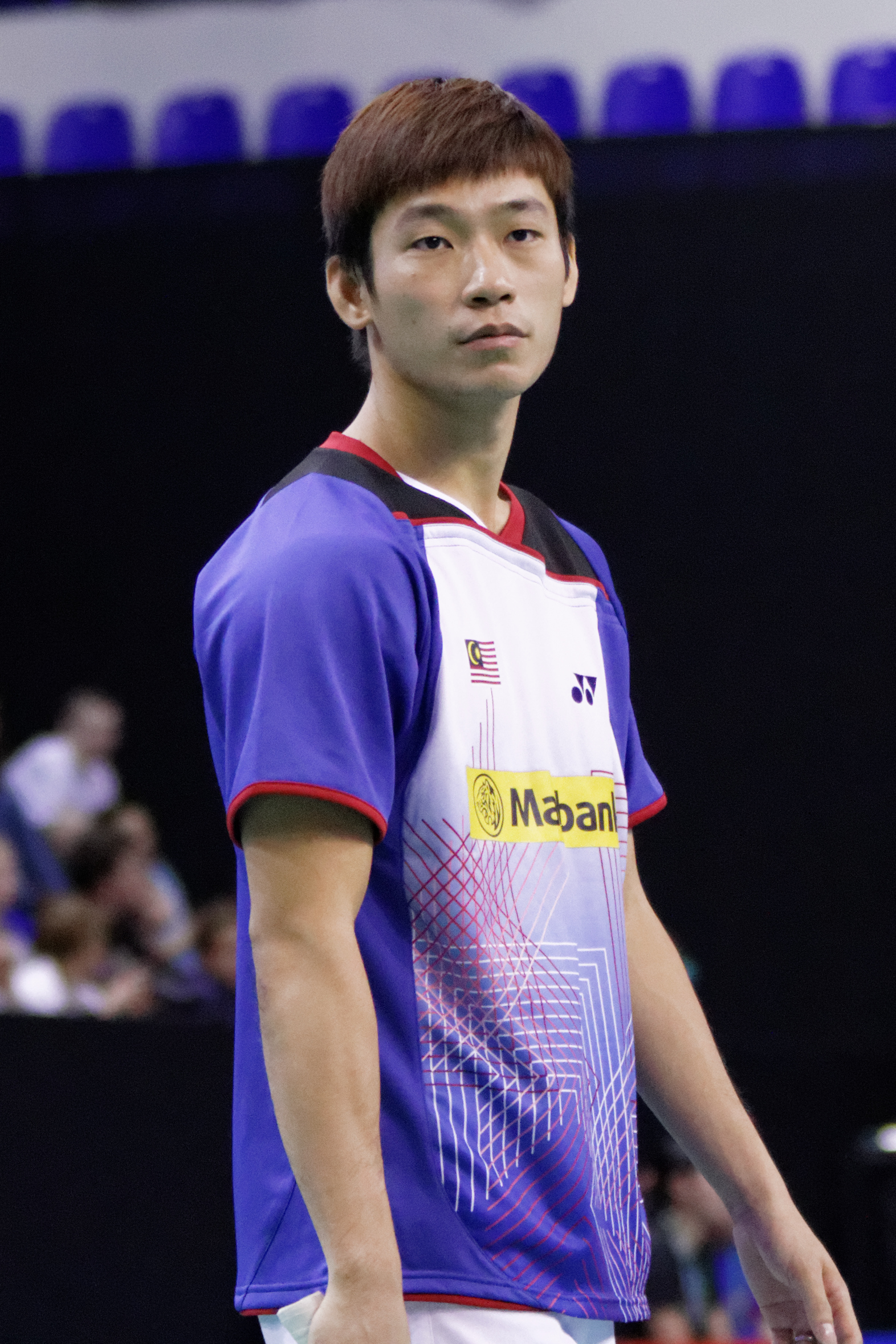 2013 French open. Mixed's doubles eightfinal. Chan Peng Soon and Goh Liu Ying vs Chris Langridge and Heather Olver.